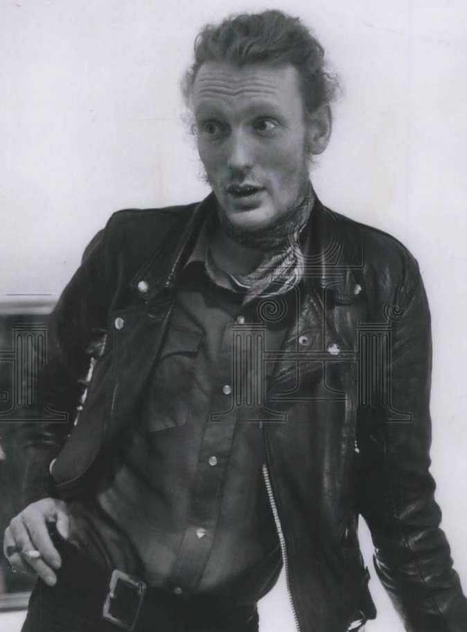 Ginger Baker, drummer of Cream.